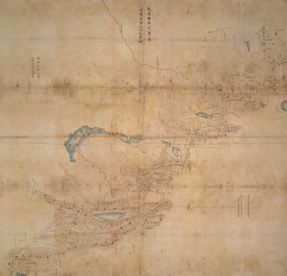 The map of the border between the Russian Empire and the Qing Empire in what is today Kazakhstan / Xinjiang region, as per the Protocol of Chuguchak of 1864. The map is not signed, and according to researchers at the National Palace Museum, is probably is a copy of the original (signed) map made later by the Qing government's Foreign Office. The original would have been signed by the heads of the two delegations (General Mingyi of Uliassutai on the Qing side, Ivan Zakharov and Ivan Babkov on the Russian side). The drawings are of high quality, delineating a red demarcation line from Shabing dabakha in the northeast to the Pamir Mountains in the southwest.